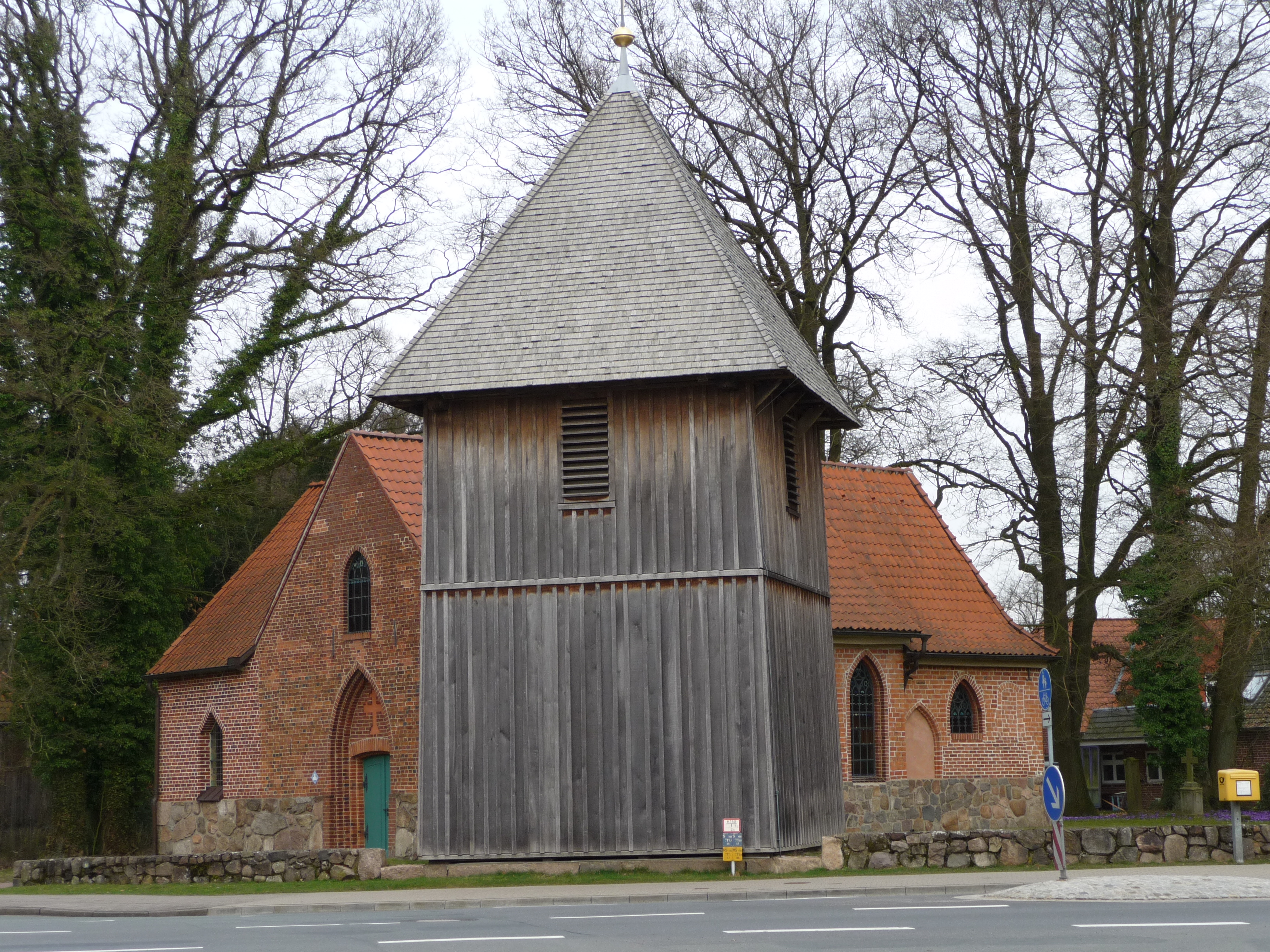 Holy Spirit Church in Soltau-Wolterdingen, built 1245